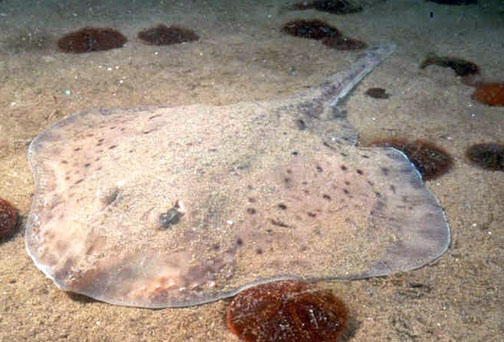 Little skate (Leucoraja erinacea) in the Gerry E. Studds Stellwagen Bank National Marine Sanctuary (cropped to remove watermark).